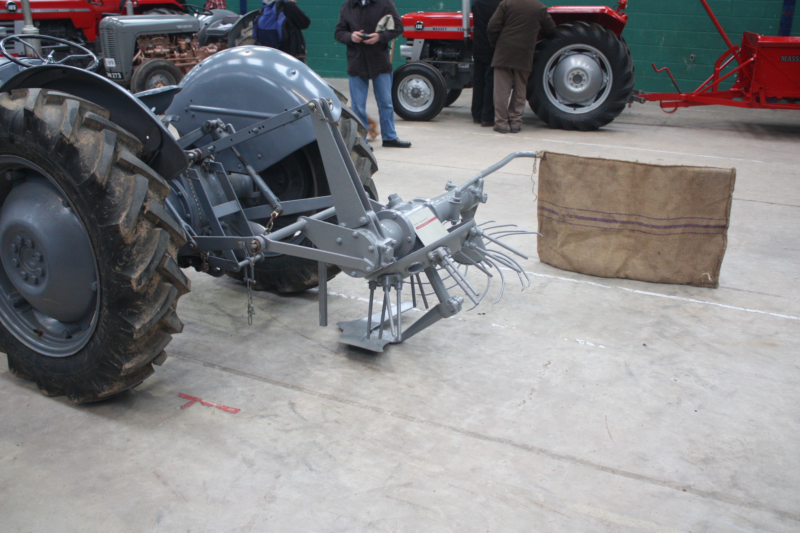 An old Ferguson tractor with a restored Ferguson potato spinner at the Somerset Vintage & Classsic Tractor Show 2009, Royal Bath and Southwest Showground, Somerset, England